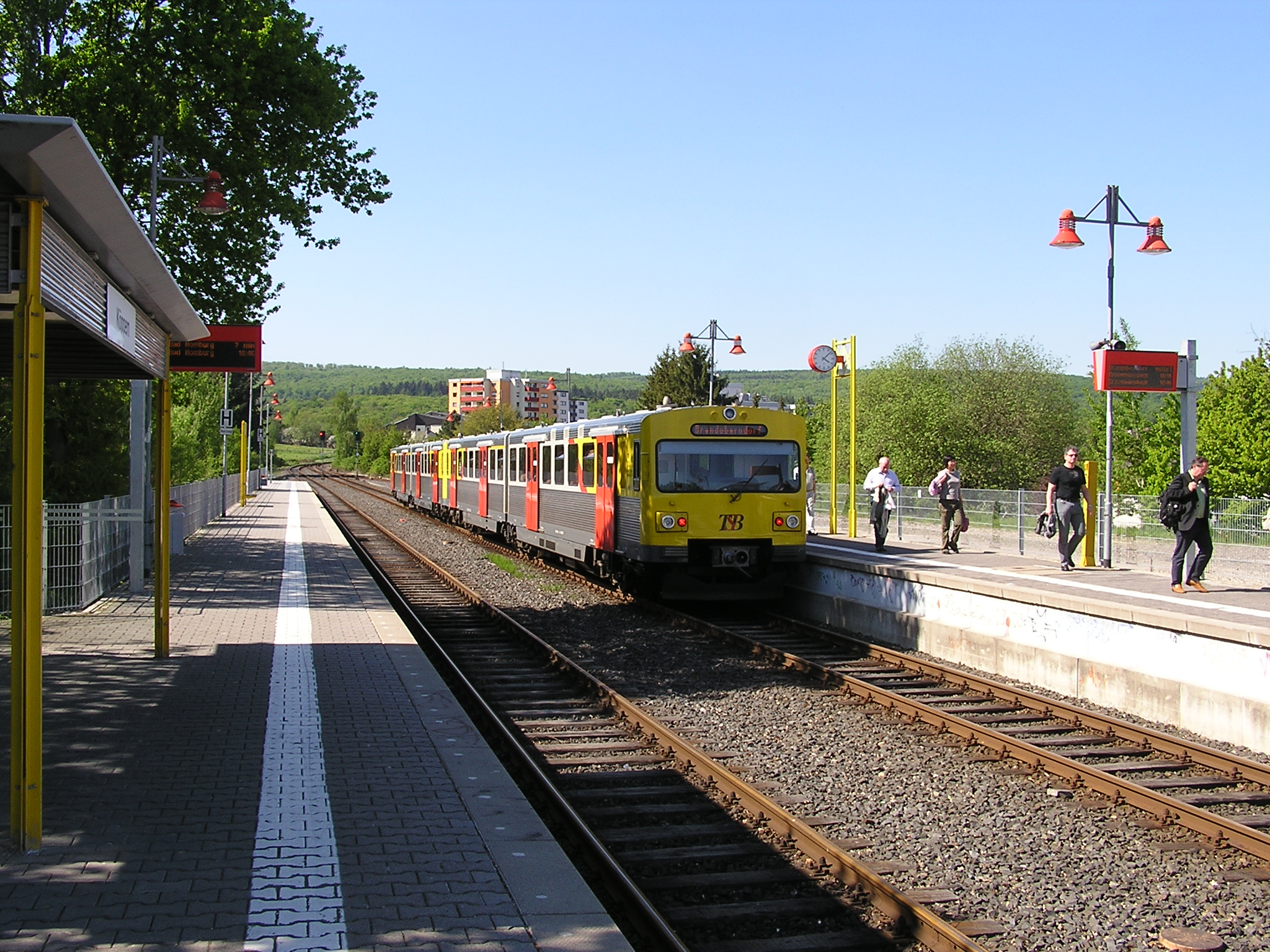 Station Friedrichsdorf-Köppern at the Taunusbahn. A train from Frankfurt Hauptbahnhof to Brandoberndorf, consisting of two VT 2E, hast just arrived. At both platforms the destination displays (installed 2007) can be seen.